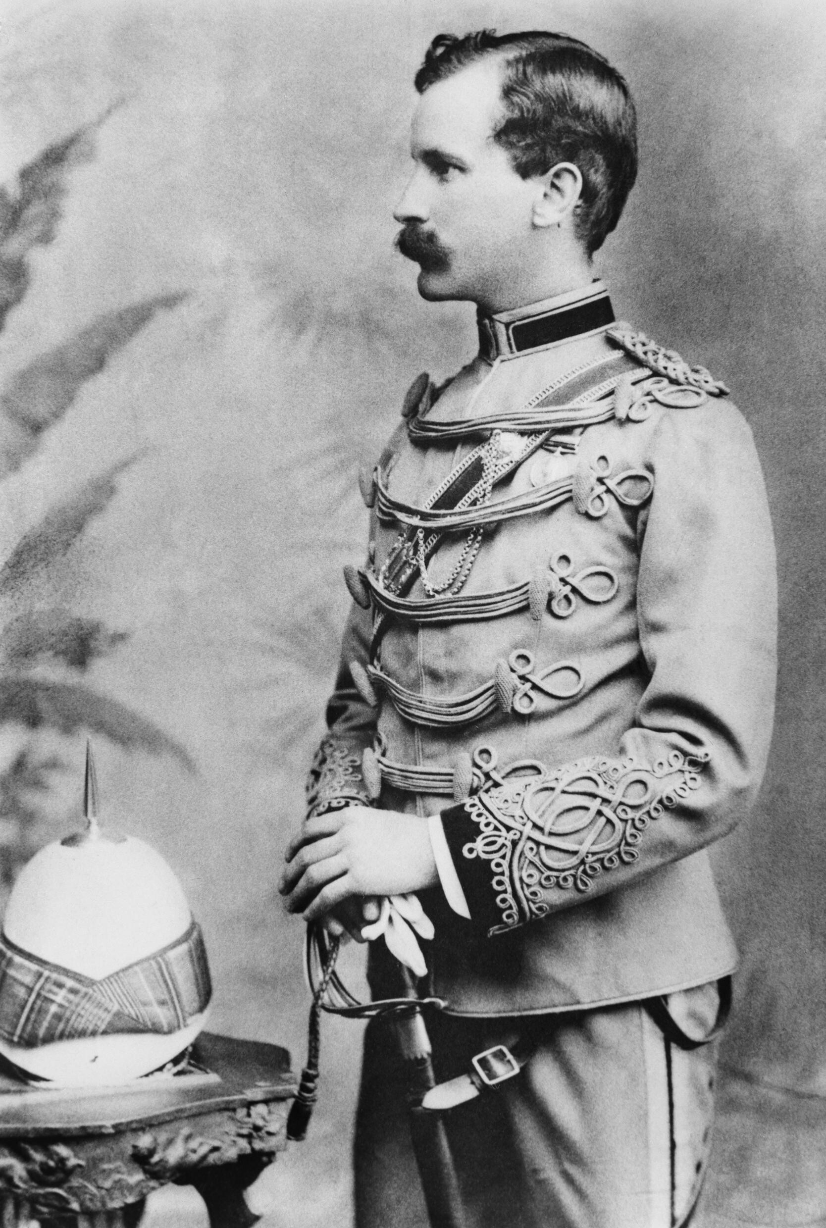 Victoria Cross Winners- Pre 1914. Portrait of Robert Bellews Adams, awarded the Victoria Cross: India, 17 August 1897.